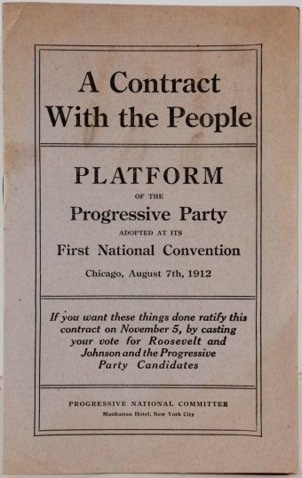 Electoral program of 1912